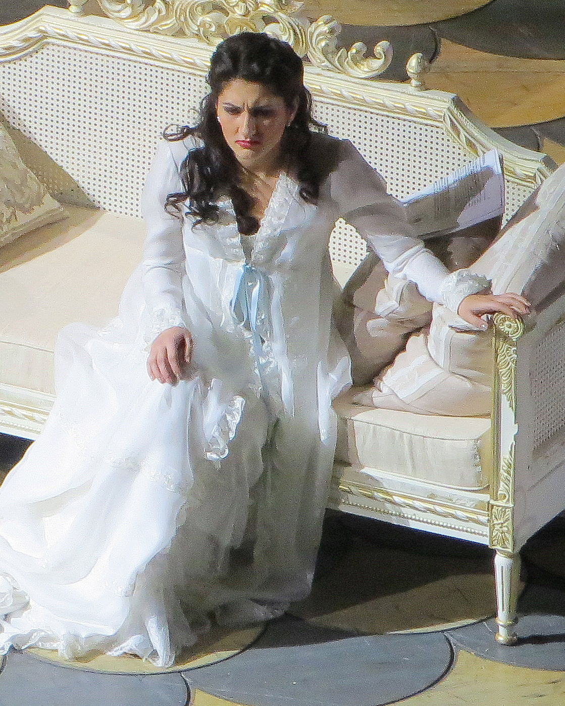 Dinara Aliyeva as Violetta (La Traviata). Bolshoi Theatre, 2013